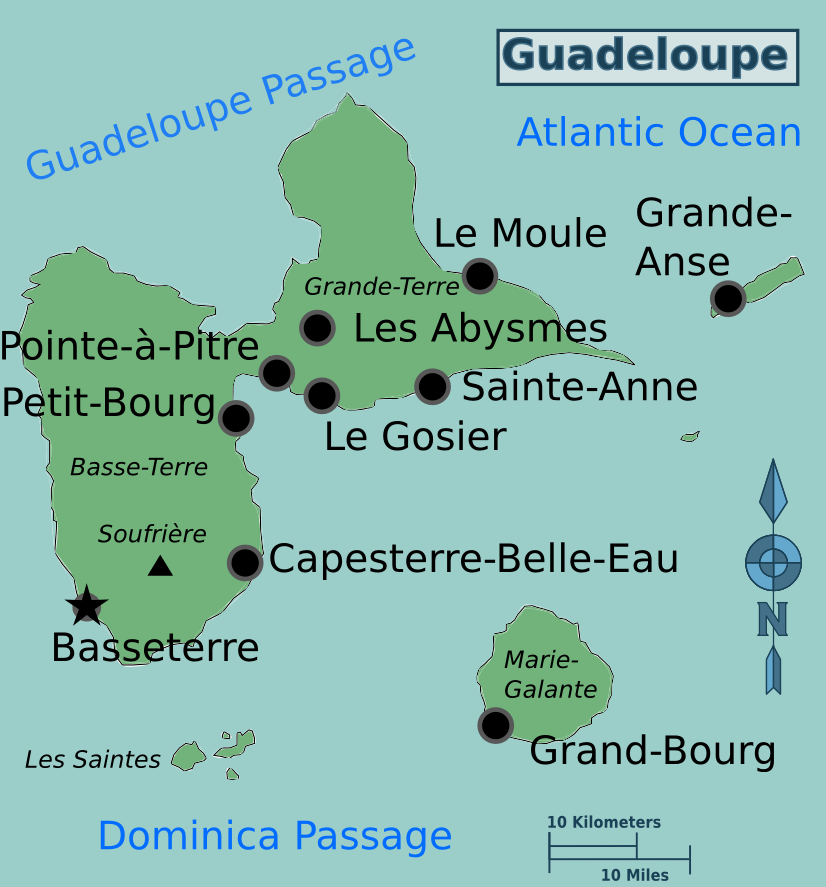 Map of Guadeloupe for Wikivoyage. Created by me in Inkscape from this PD-licensed map: File:Guadeloupe_map.png